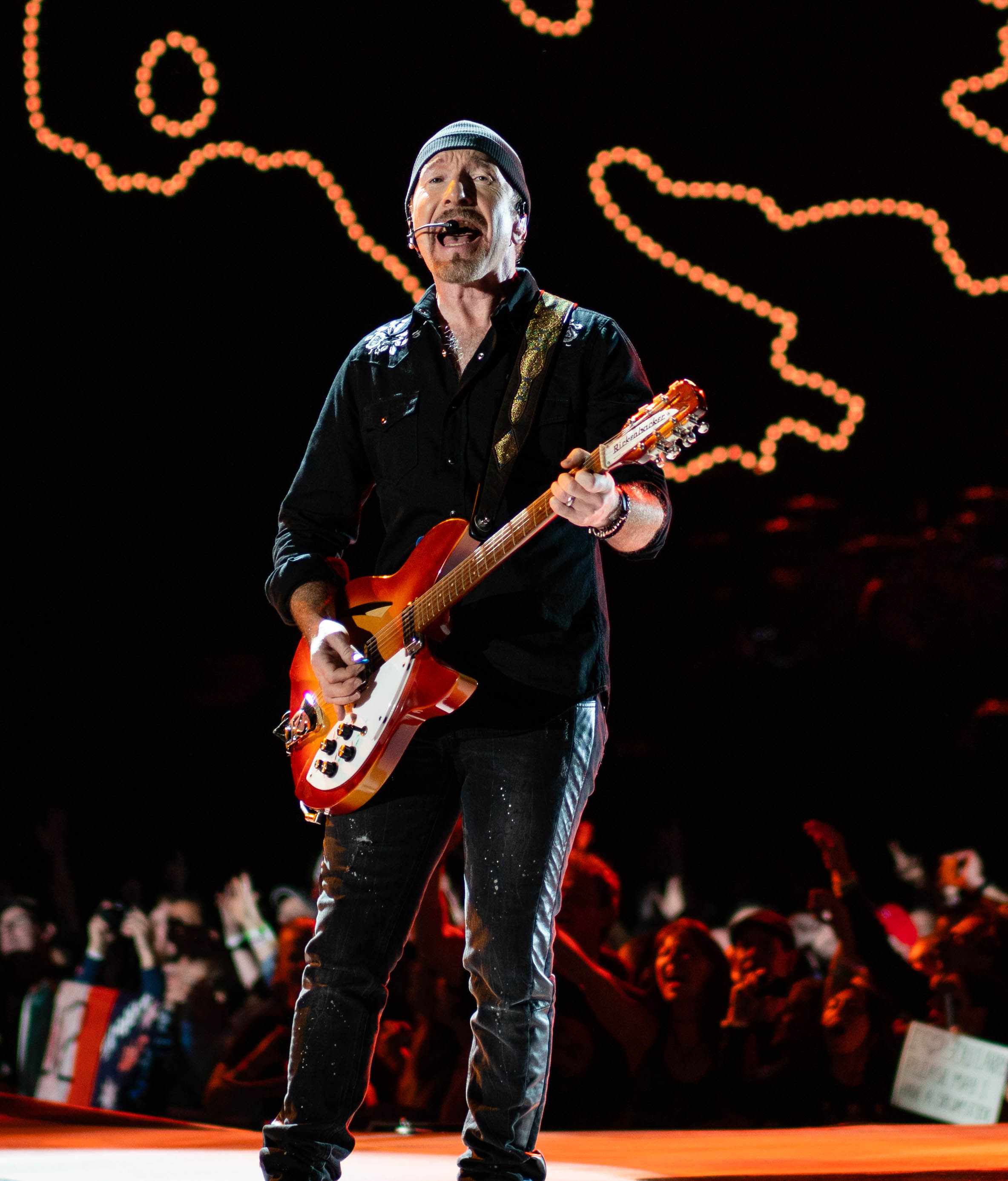 Irish rock band U2 performing at Sydney Cricket Grounds in Sydney, Australia on November 22, 2019, during the band's The Joshua Tree Tour 2019